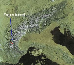 The European Alps from space in May 2002. Image showing location of Frejus tunnel. This is a retouched picture, which means that it has been digitally altered from its original version. Modifications: location of Frejus tunnel. The original can be viewed here: Alps.space.300pix.jpg. Modifications made by Rnt20.